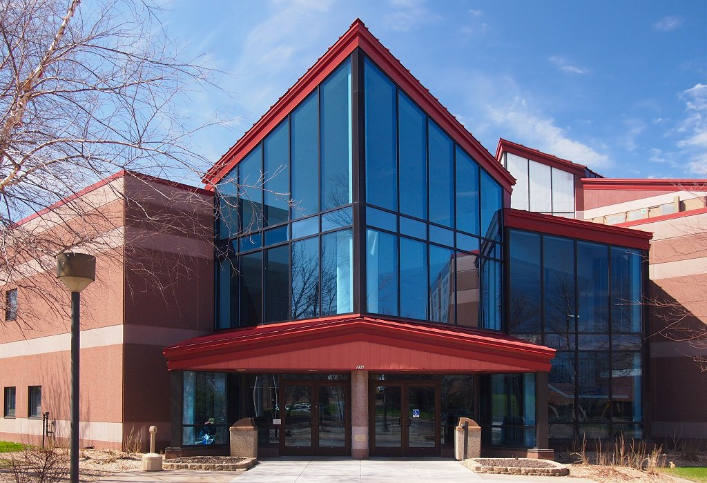 Gangelhoff Center, 235 Hamline Ave, Concordia University, St Paul, Minnesota, USA. Viewed from the northeast.